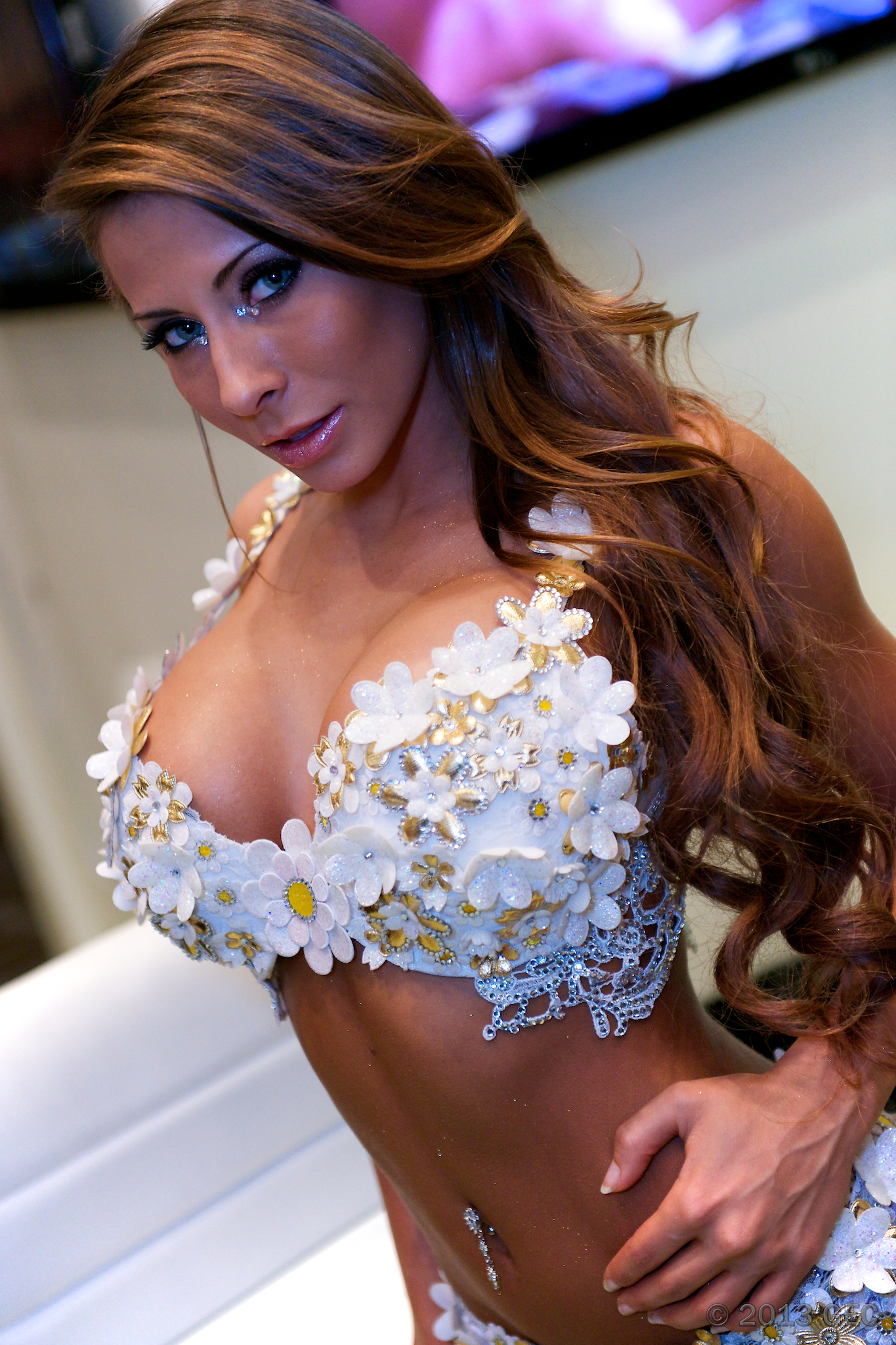 @Madison420Ivy. 2013 AVN Adult Entertainment Expo AEE at Hard Rock Hotel - Las Vegas. 2013 © GEC.